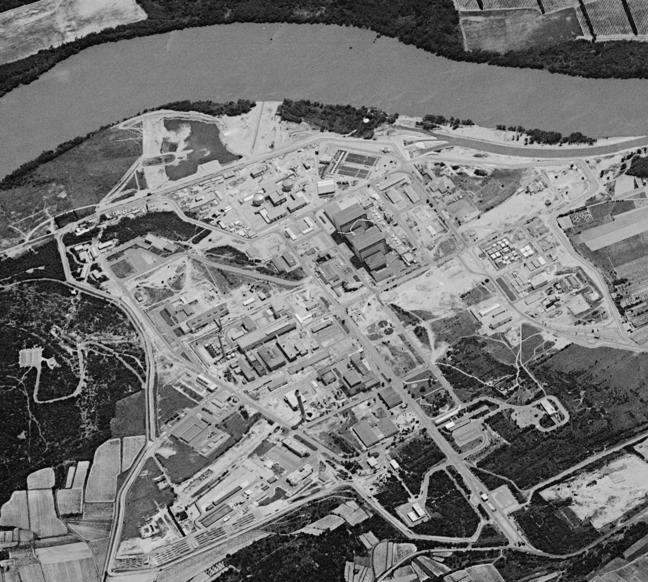 The Marcoule Plutonium Production Plant, France, as photographed by a KH-7/GAMBIT satellite during Mission 4038.